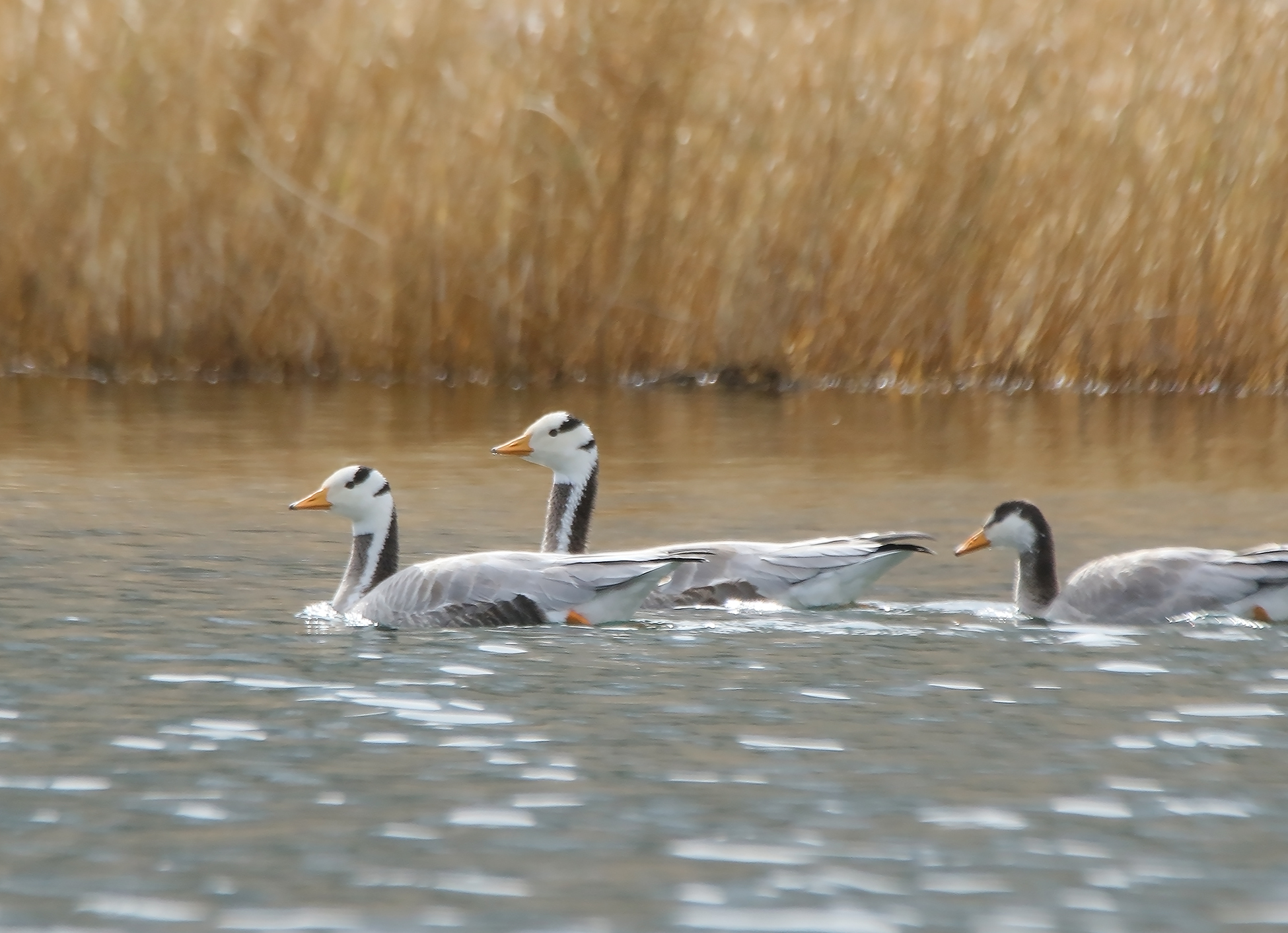 Bar-headed Goose (Anser indicus) captured at Borit, Gojal, Gilgit-Baltistan, Pakistan with Canon EOS 7D Mark II